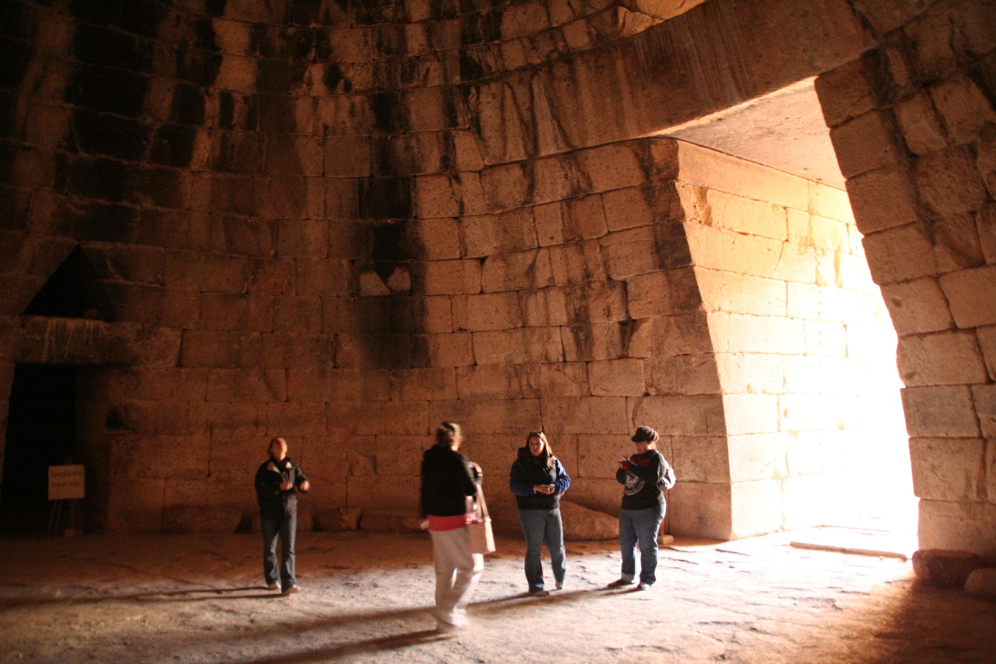 The Treasury of Atreus, a tholos tomb at Mycenae, Greece (Panagitsa Hill) constructed around 1250 B.C.